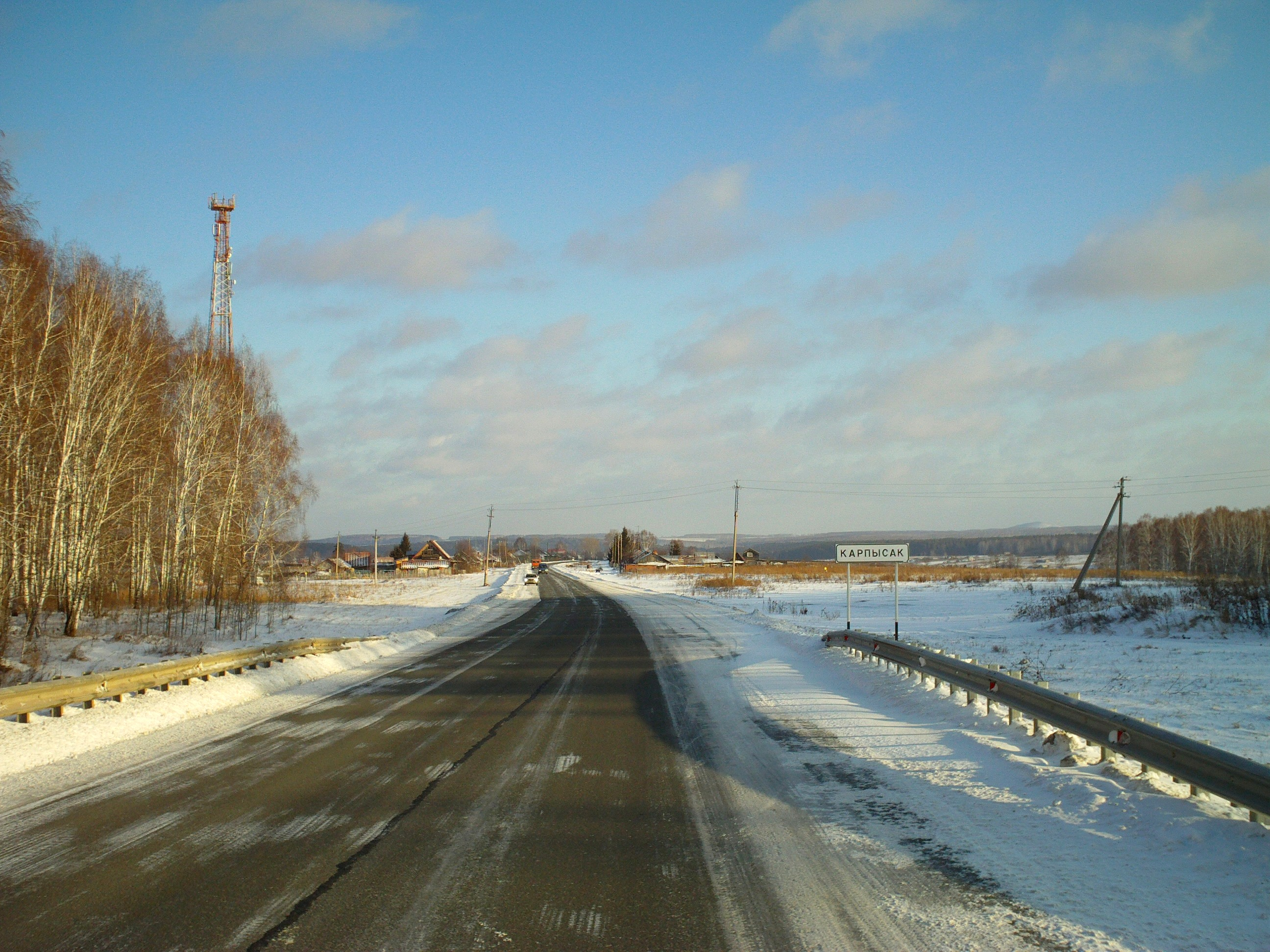 Karpysak village